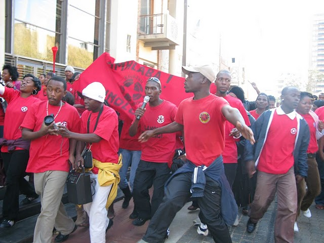 Abahlali baseMjondolo Protest the Slums Act at the Constitutional Court in Johannesburg, South Africa.